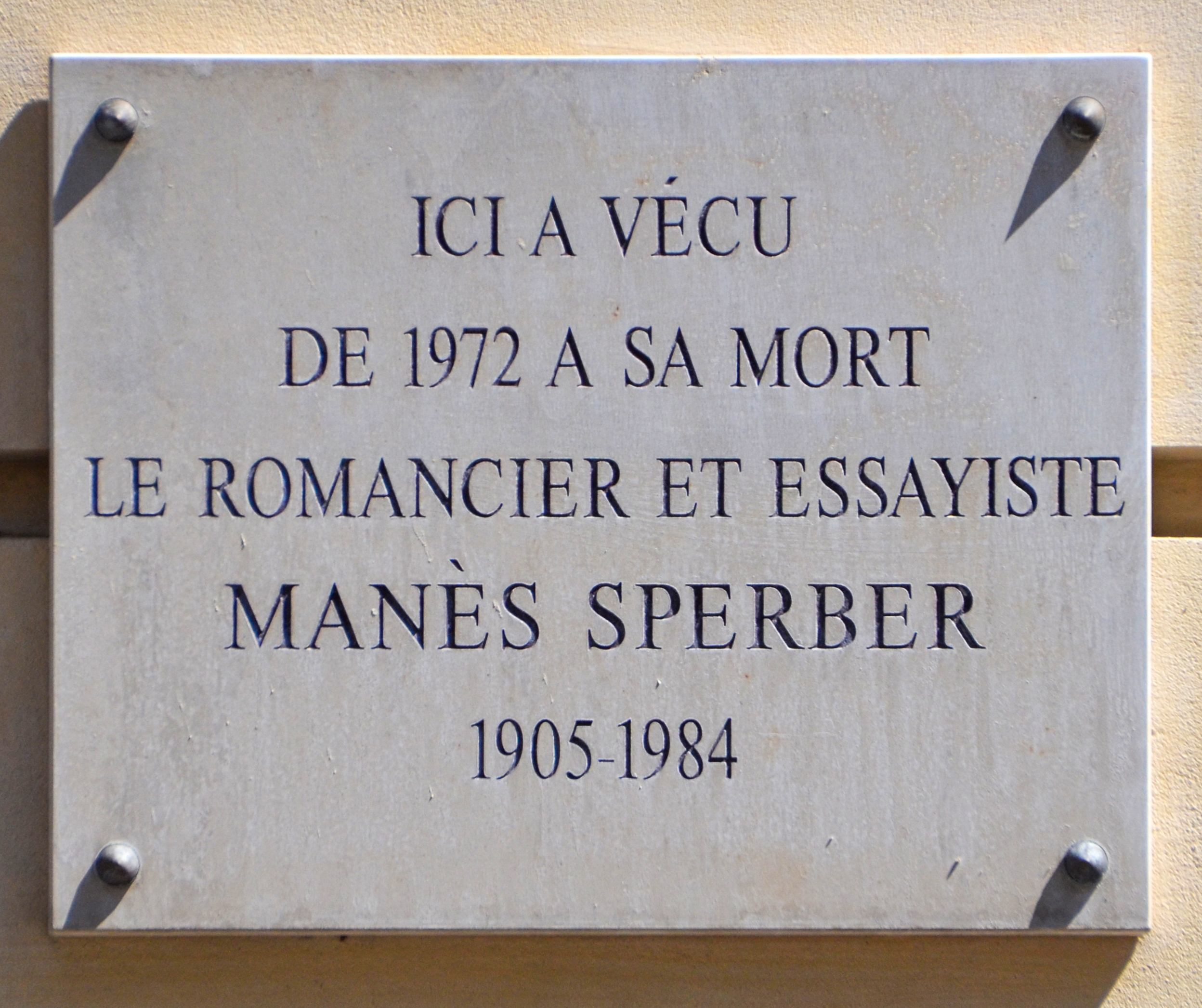 Read about him here